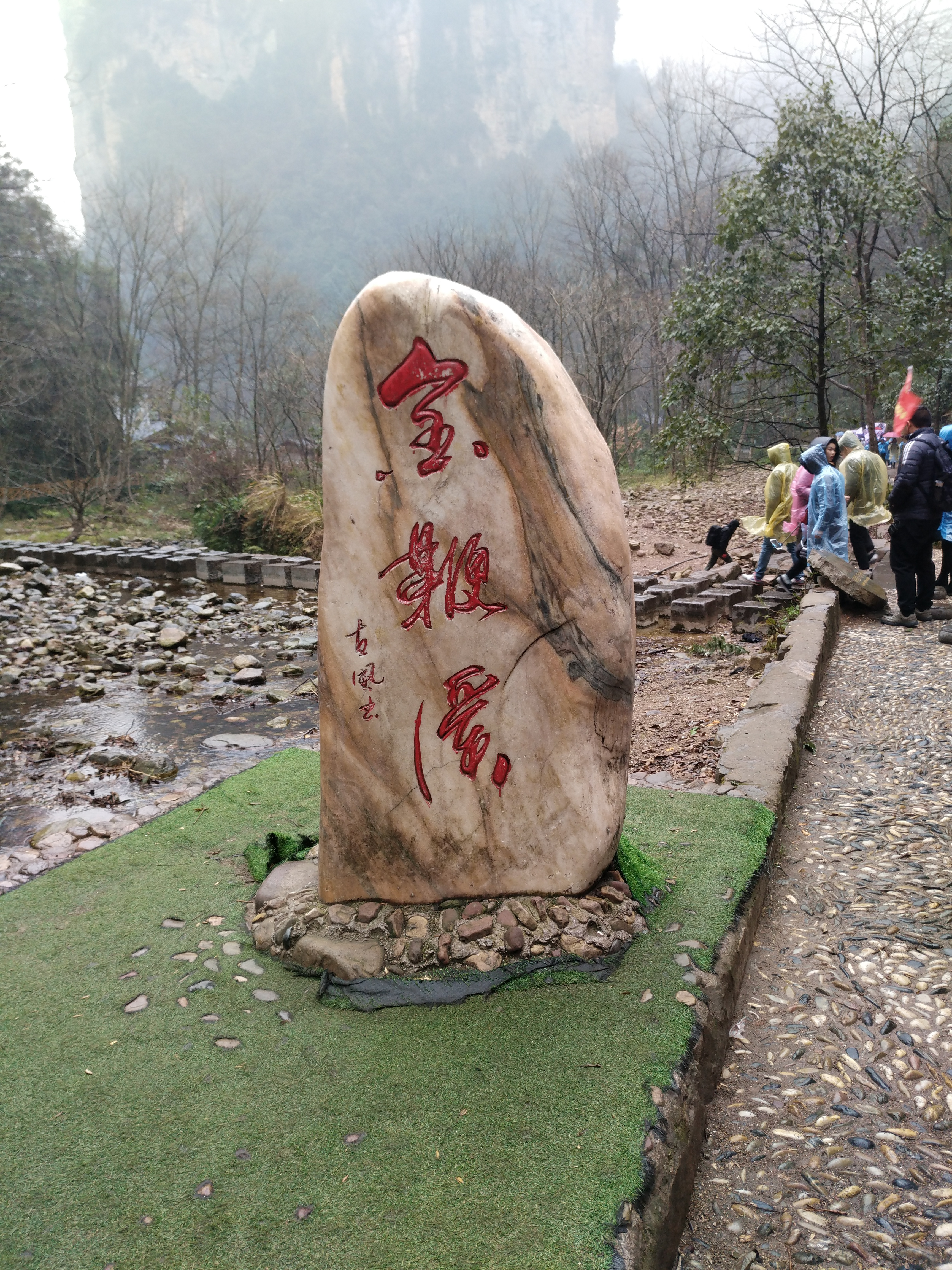 金鞭溪石刻